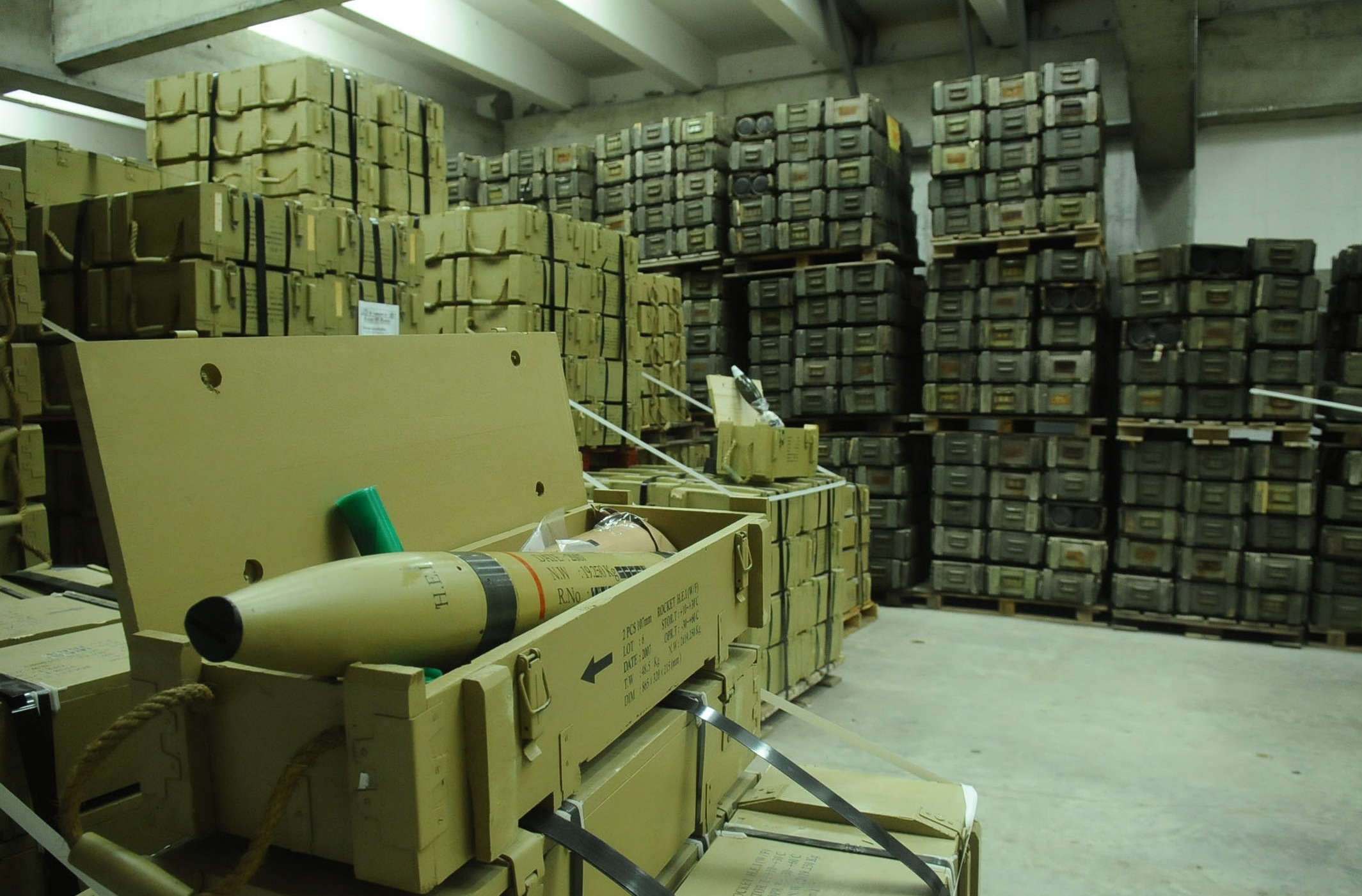 November 5, 2009. Israel Navy forces stopped the cargo ship "Francop" and found missiles, rockets and other weaponry. The ship was brought to the Ashdod port for inspection. Pictured here: Weaponry found by IDF forces on the Francop are moved to an IDF warehouse in the center of Israel.